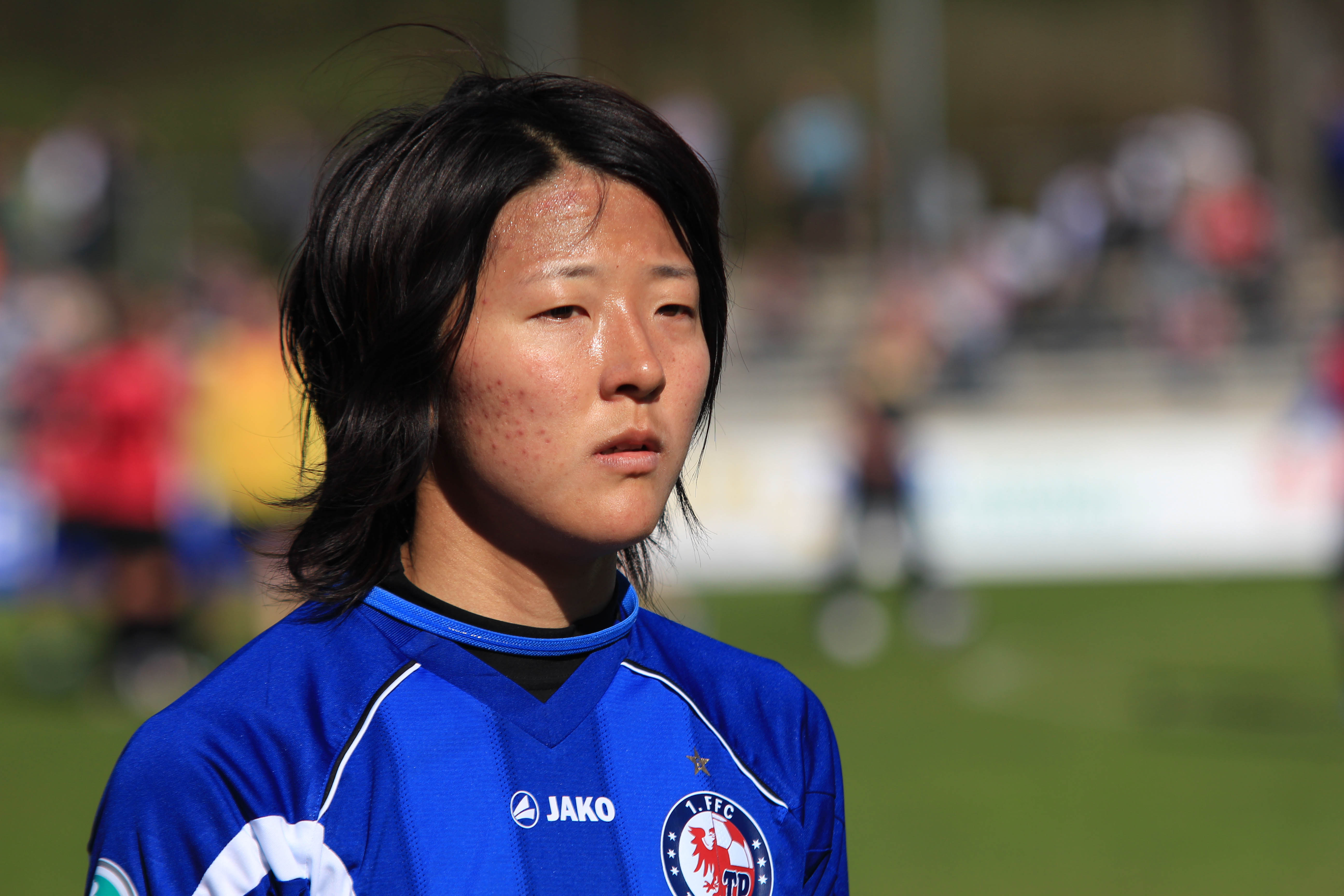 Japanese footballer Yūki Nagasato, Turbine Potsdam